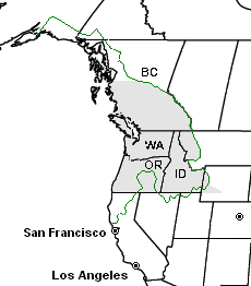 Modification of [:Image:CascadiaComparison.PNG], created by User:SebastianHelm for the Pacific Northwest article. Legend: Shaded area: Historical Oregon Country a.k.a Columbia District at its greatest extent; Green border: Cascadia bioregion (a.k.a. Pacific Northwest bioregion), defined as "the watersheds of rivers that flow into the Pacific Ocean through North America's temperate rainforest zone"[1]. Please feel free to edit and add other borders.